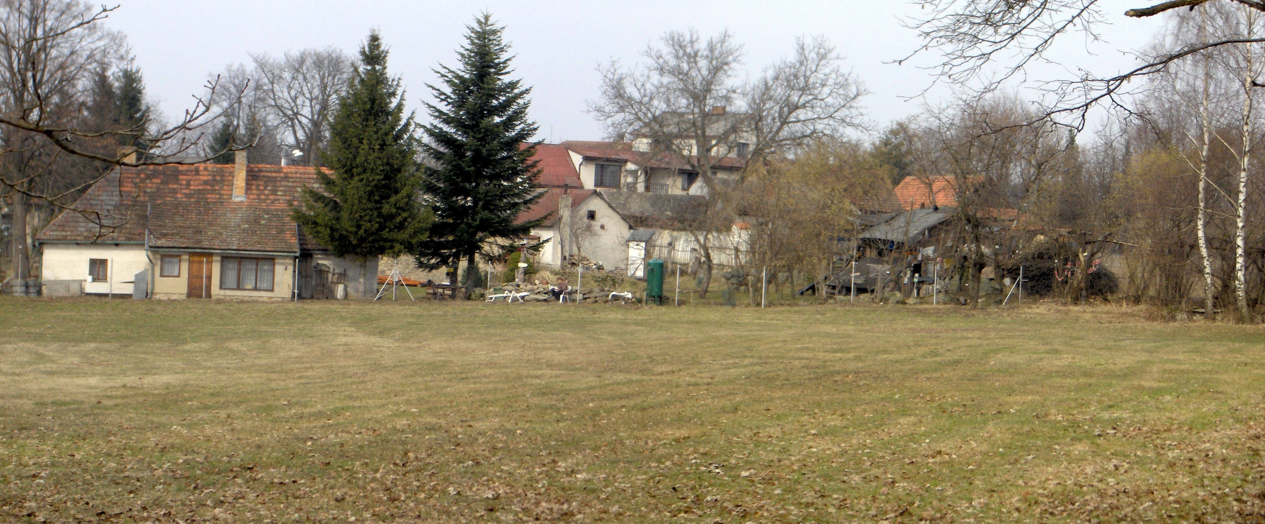 Něžovice from south